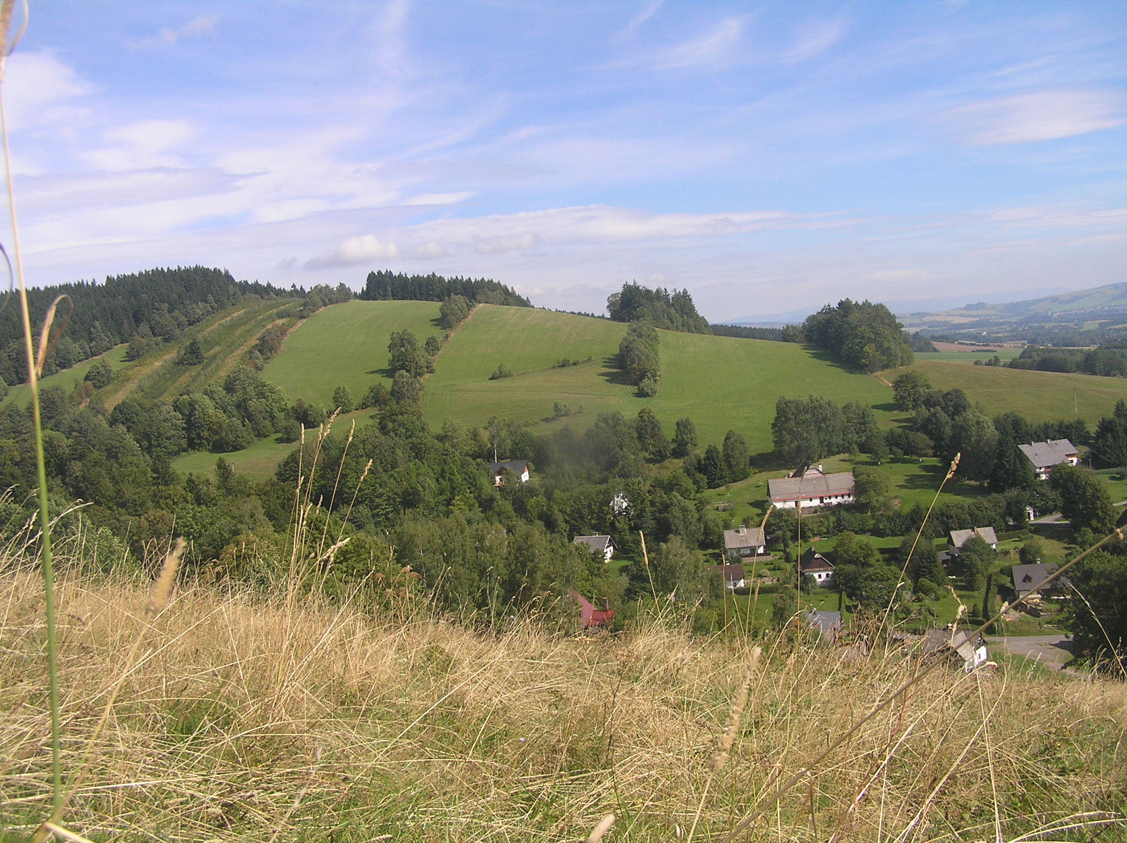 The village Petrovičky from Adam, Czech Republic